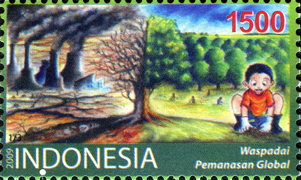 Stamps of Indonesia